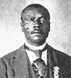 Henry Johnson, United States Army buffalo soldier and Medal of Honor recipient for actions in the Indian Wars.